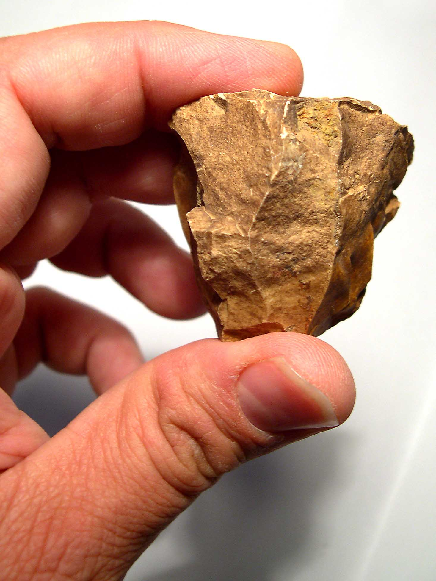 Blade-core in flint that proceeds from the sorrounding area of the La Viña cave (Asturias, Spain).